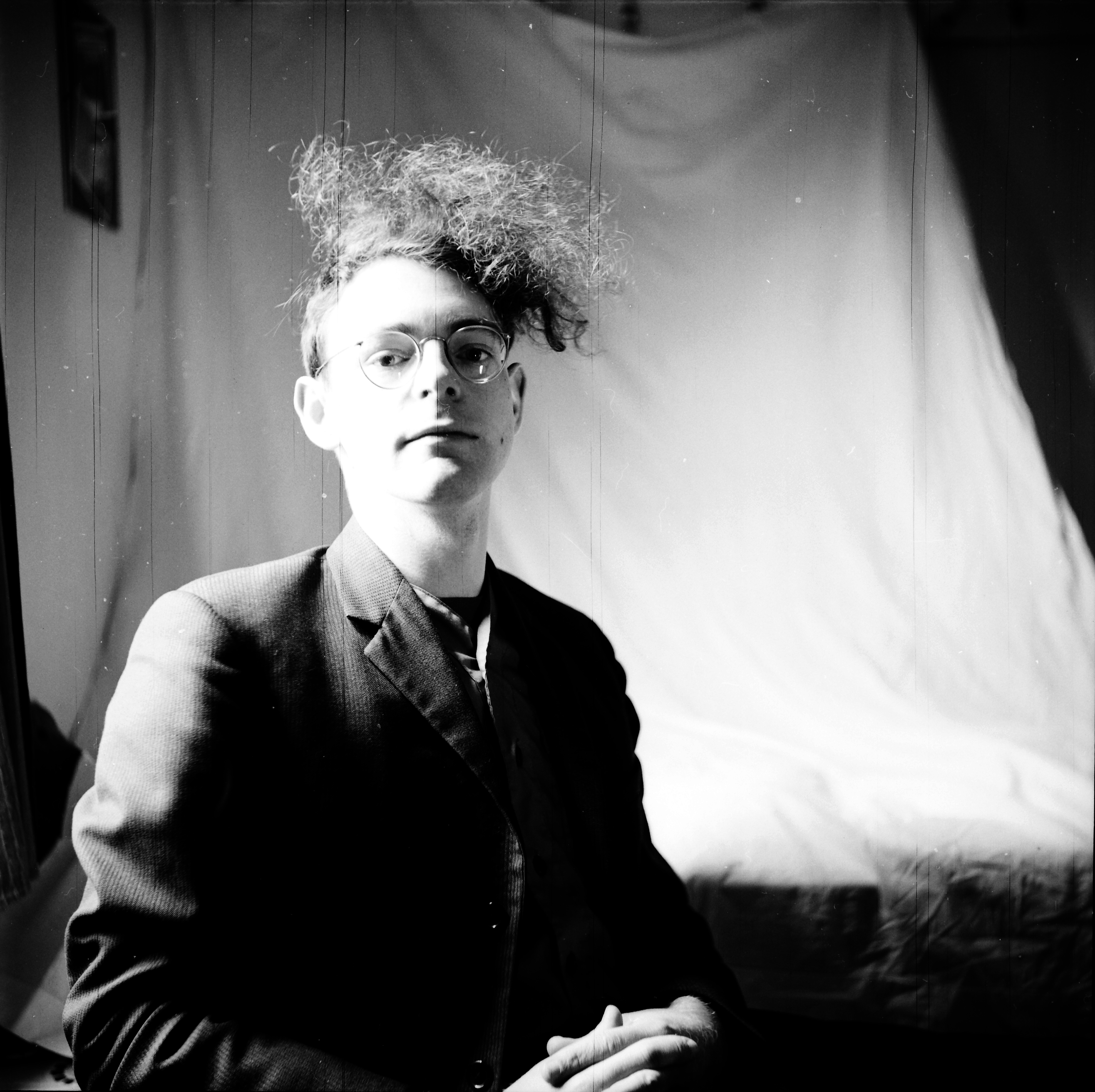 James Gardner, Keyboard player and composer in The Umbrella